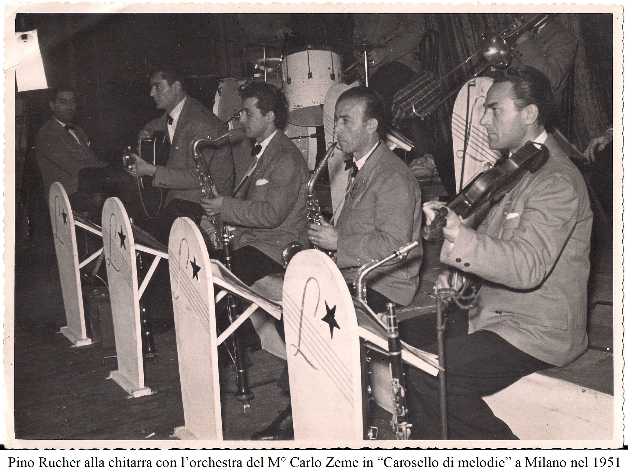 Orchestra directed by M° Carlo Zeme in Carosello di melodie. Pino Rucher at the guitar.